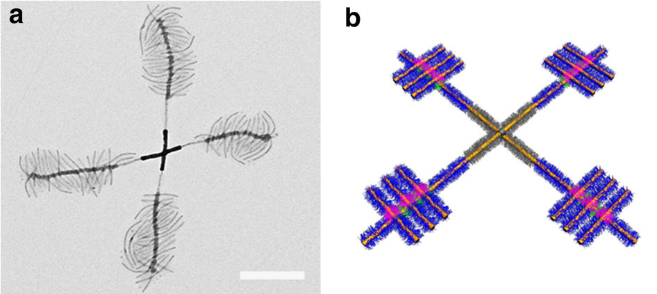 (a) TEM image (after solvent evaporation) of a ‘windmill’-like supermicelle formed in i-PrOH. (b) Schematic illustration of the supermicelles.